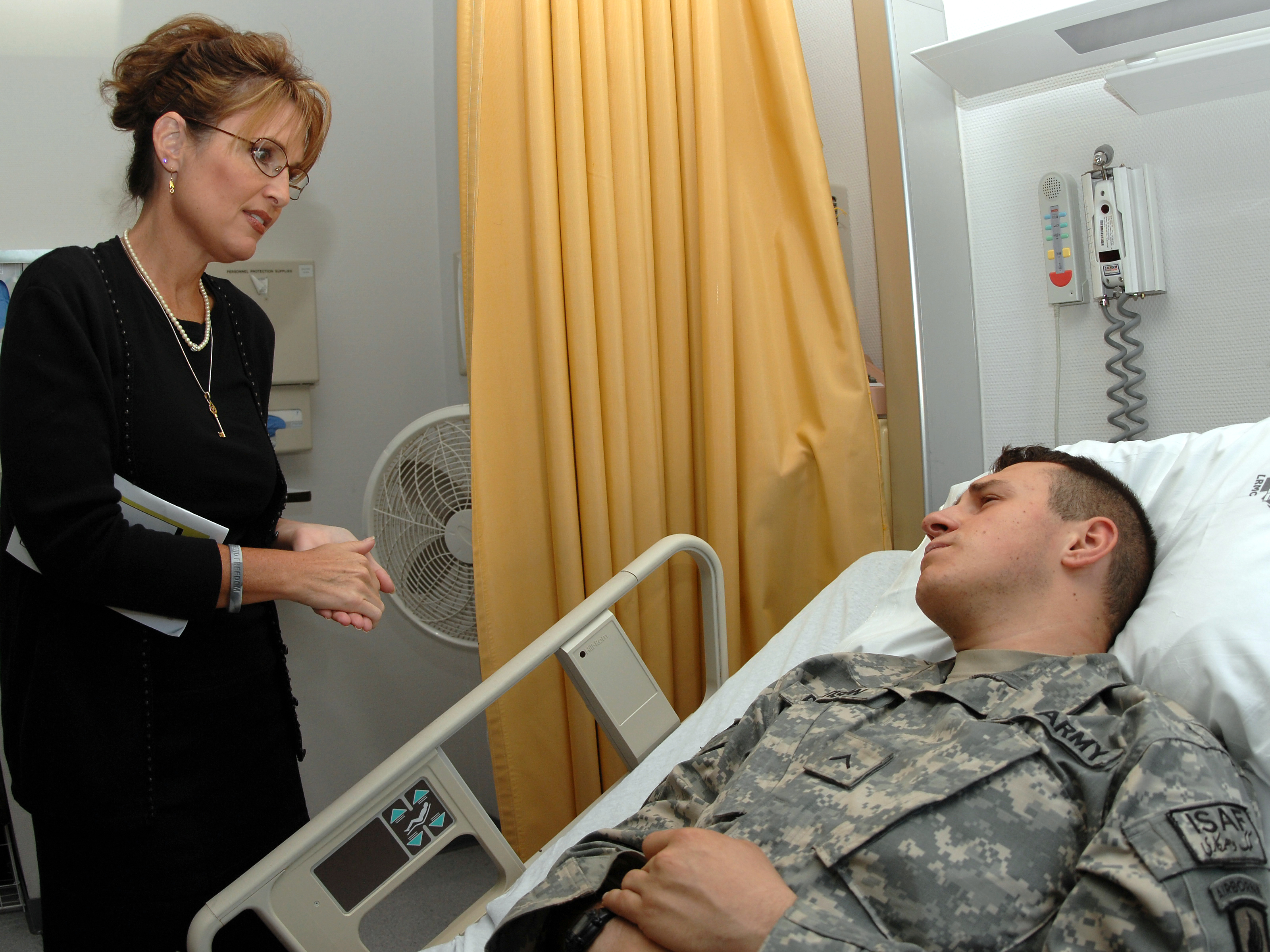 Gov. Sarah Palin visits Army Private James Pattison during a morale tour at Landstuhl Regional Medical Center, Landstuhl , Germany, July 26, 2007. Private Pattison is being treated at LRMC for injuries he suffered while downrange.